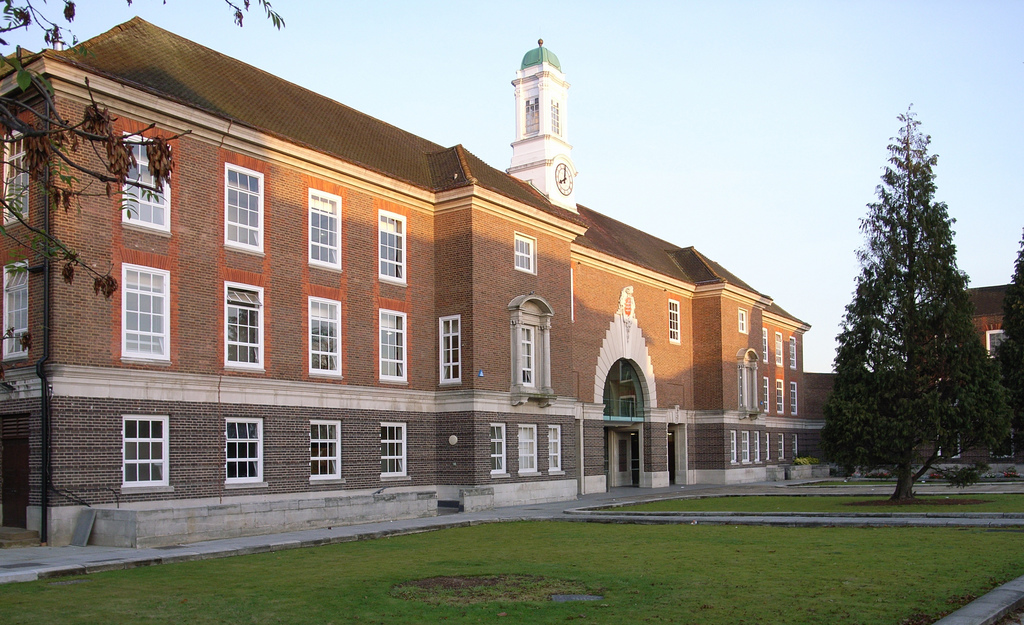 Former Hendon Technical College, now Middlesex University (1927) by H.W. Burchett